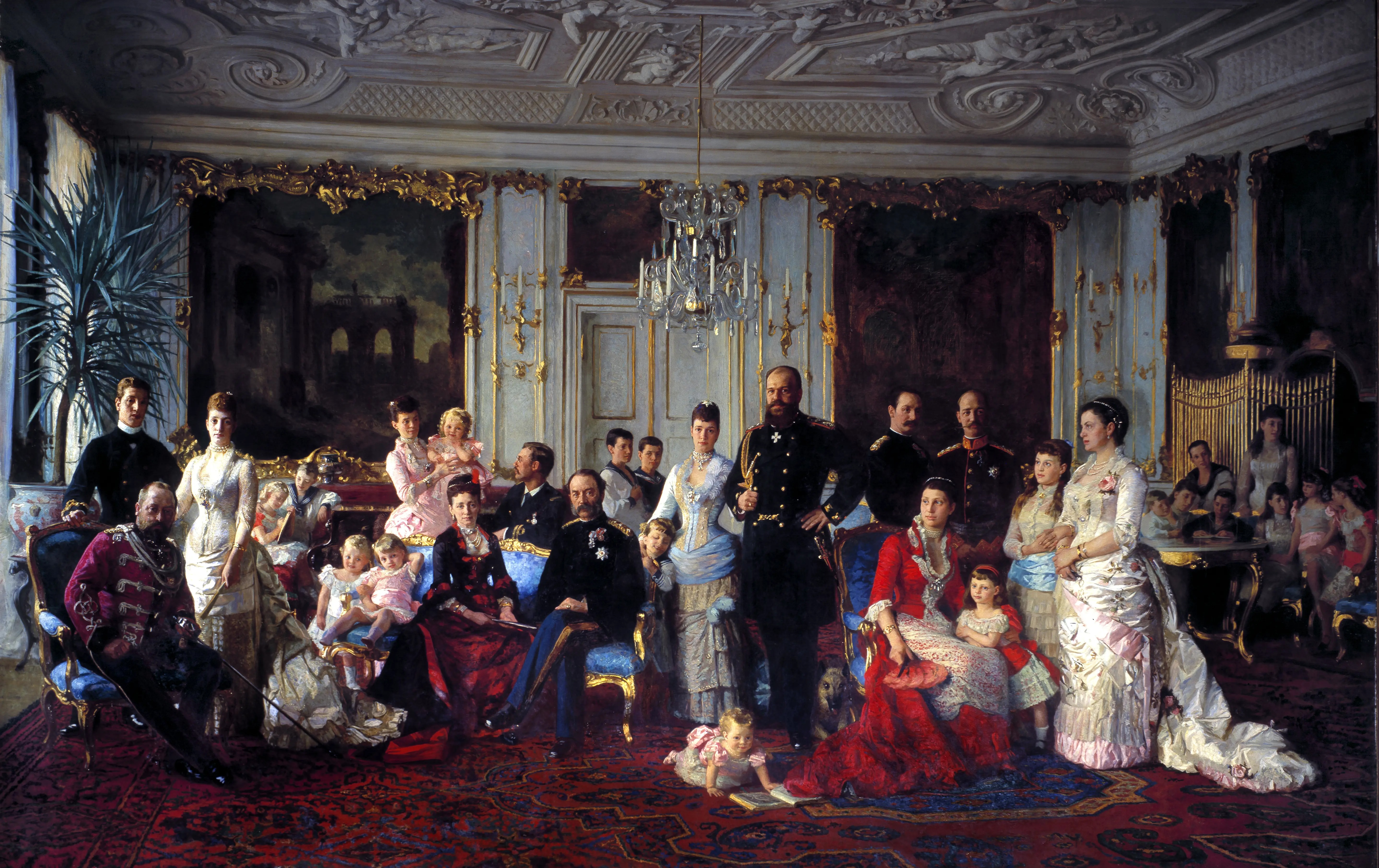 Painting of Christian IX of Denmark with his large family of European royalty gathered in the garden hall at Fredensborg Palace.